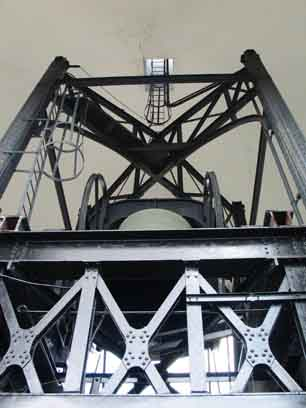 16-ton Founder's Bell in its cradle in Philadelphia. Originally the bell could be swung on special occasions. Today it is hit by a huge hammer every hour on the hour.